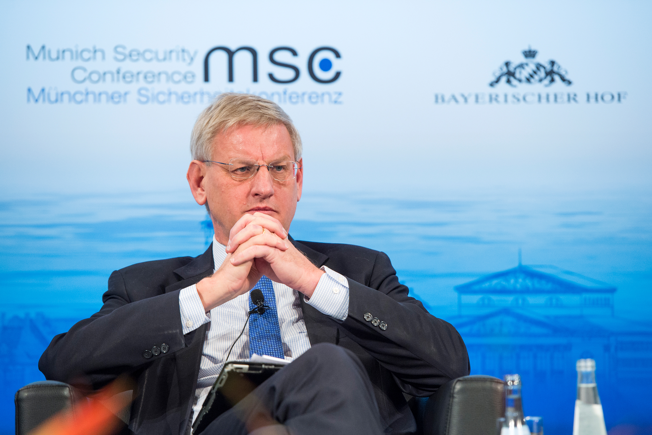 50th Munich Security Conference 2014: Carl Bildt: Carl Bildt (Minister of Foreign Affairs, Kingdom of Sweden)